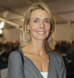 Elena Esposito on a conference in Lüneburg 2016